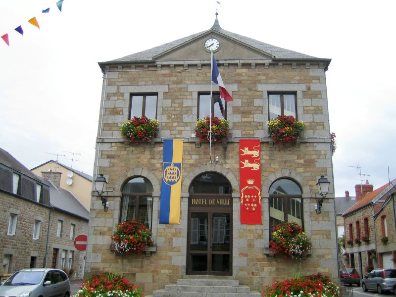 Ducey Ttown hall (Normandie, France)